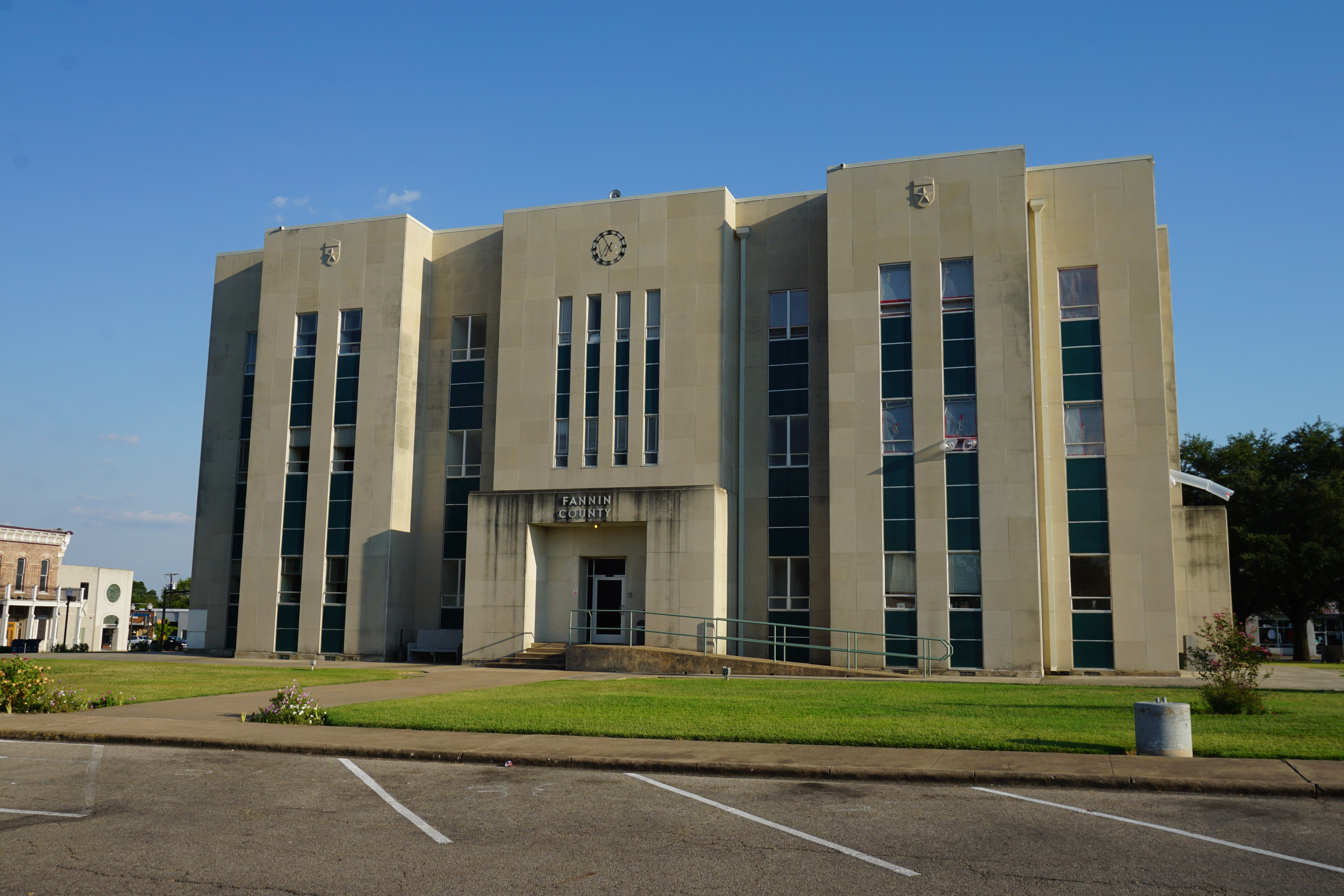 The Fannin County Courthouse in Bonham, Texas (United States).